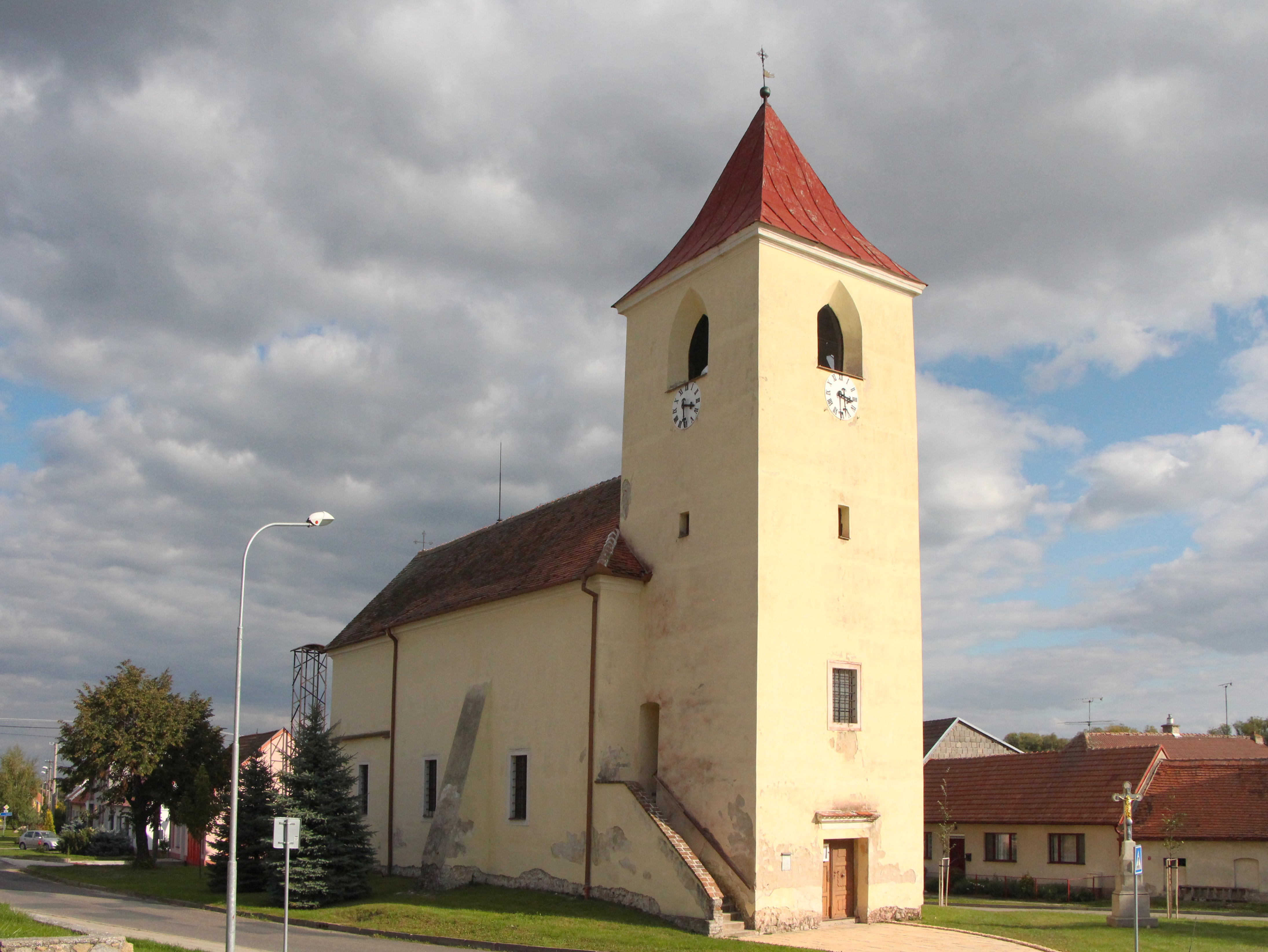 Sedlec, Břeclav District, Czechia.